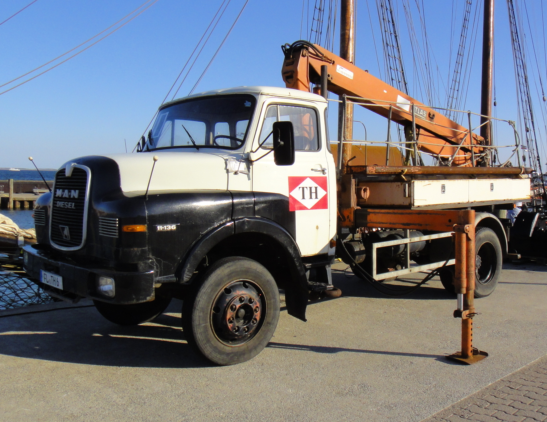 Old MAN trucks in Hörum harbour, Sylt, Germany